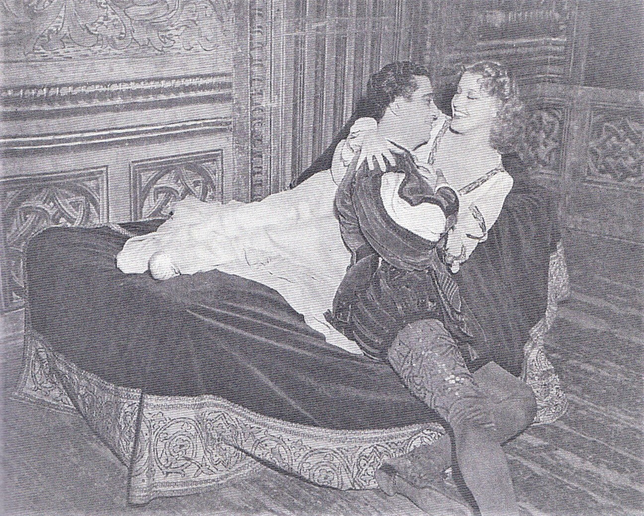 Behind the scenes photo of actress Jeanette MacDonald and actor Armand Tokatyan in Montreal, 1943